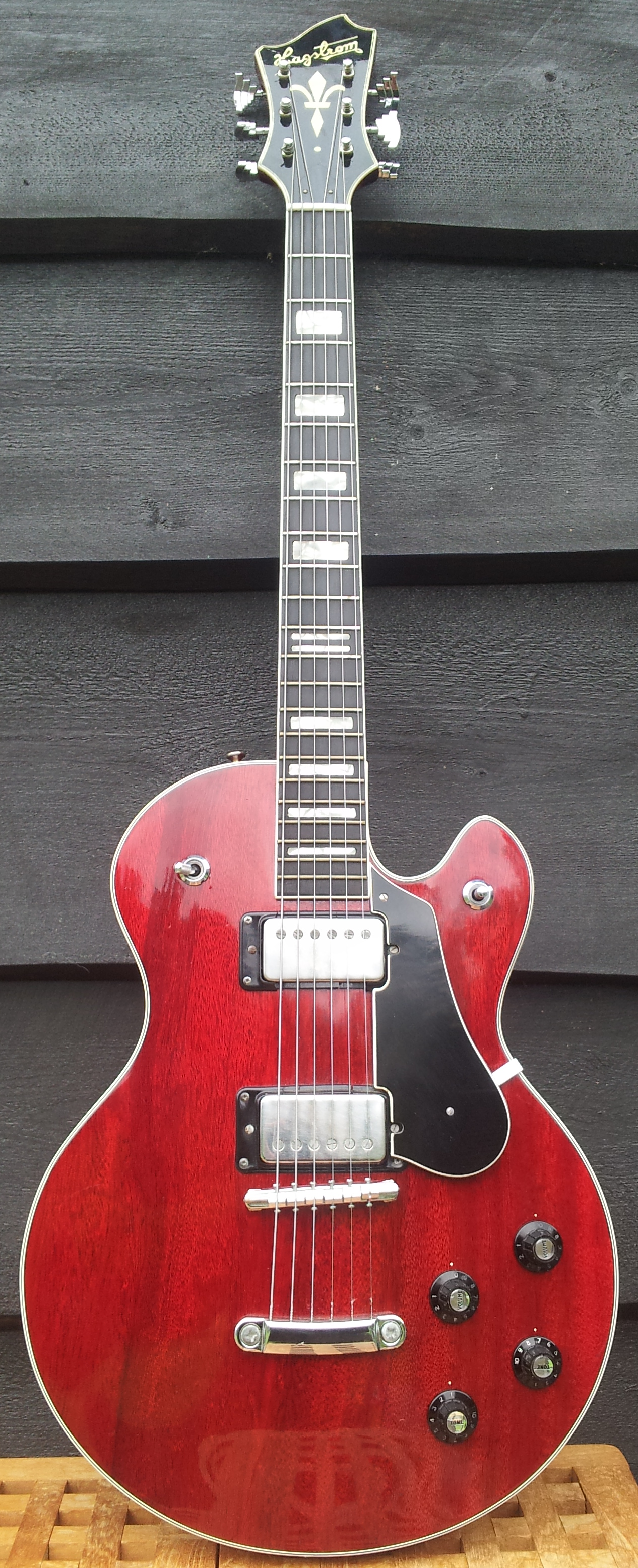 A Hagström Swede guitar in Cherry Red finish, probably from 1974, alternatively 1975